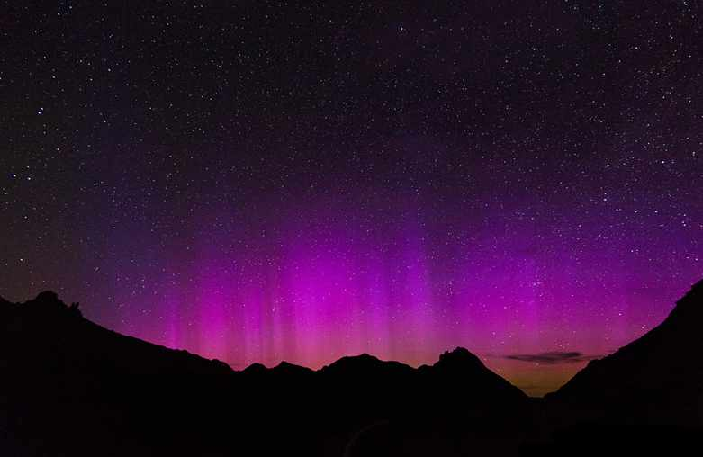 An Aurora Borealis as seen in South Dakota due to June 16th, 2012 Solar flare. Auroras were in fact seen as far south as Ocean City, Maryland.